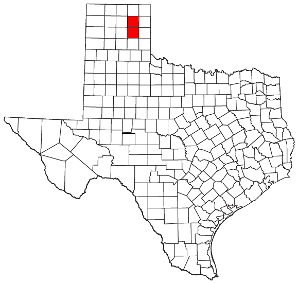 Locator map of the Pampa Micropolitan Statistical Area in the Panhandle region of the U.S. state of Texas.